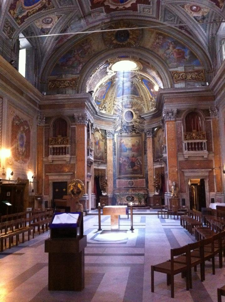 Interior of the Oratory of San Francesco Saverio del Caravita, Rome.